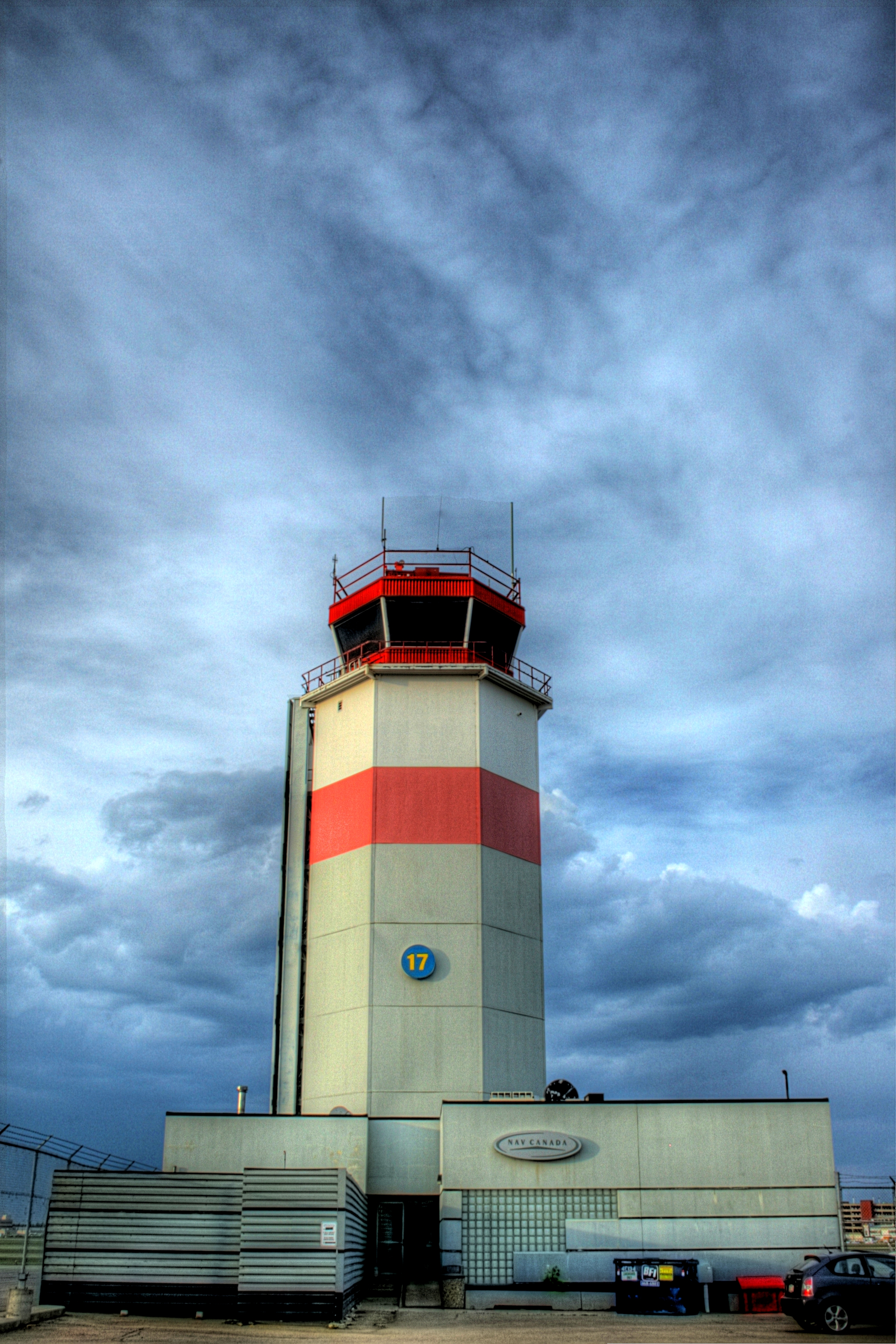 The City Centre Airport Control Tower building in Edmonton, Alberta, Canada.